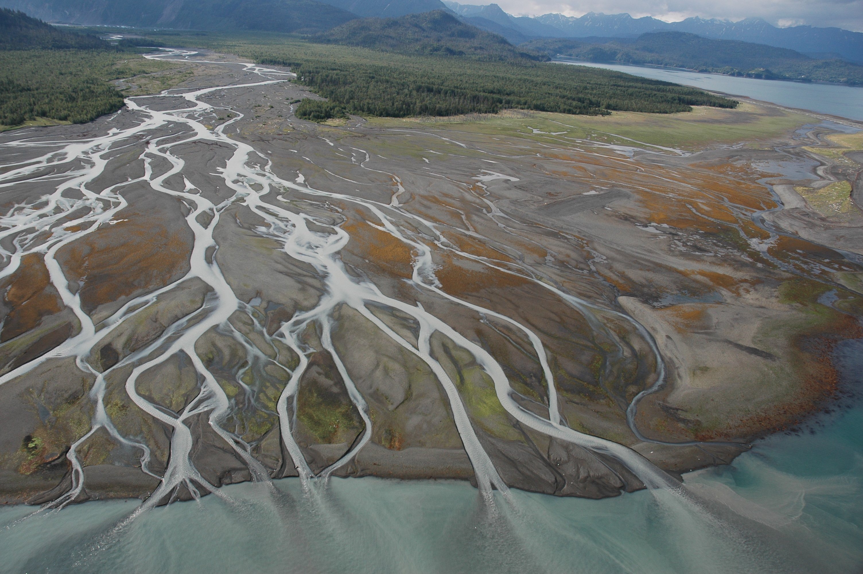 Aerial photograph. Magnificent braided river delta with red and green flora showing at low tide. Alaska, Lower Cook Inlet, Kachemak Bay.